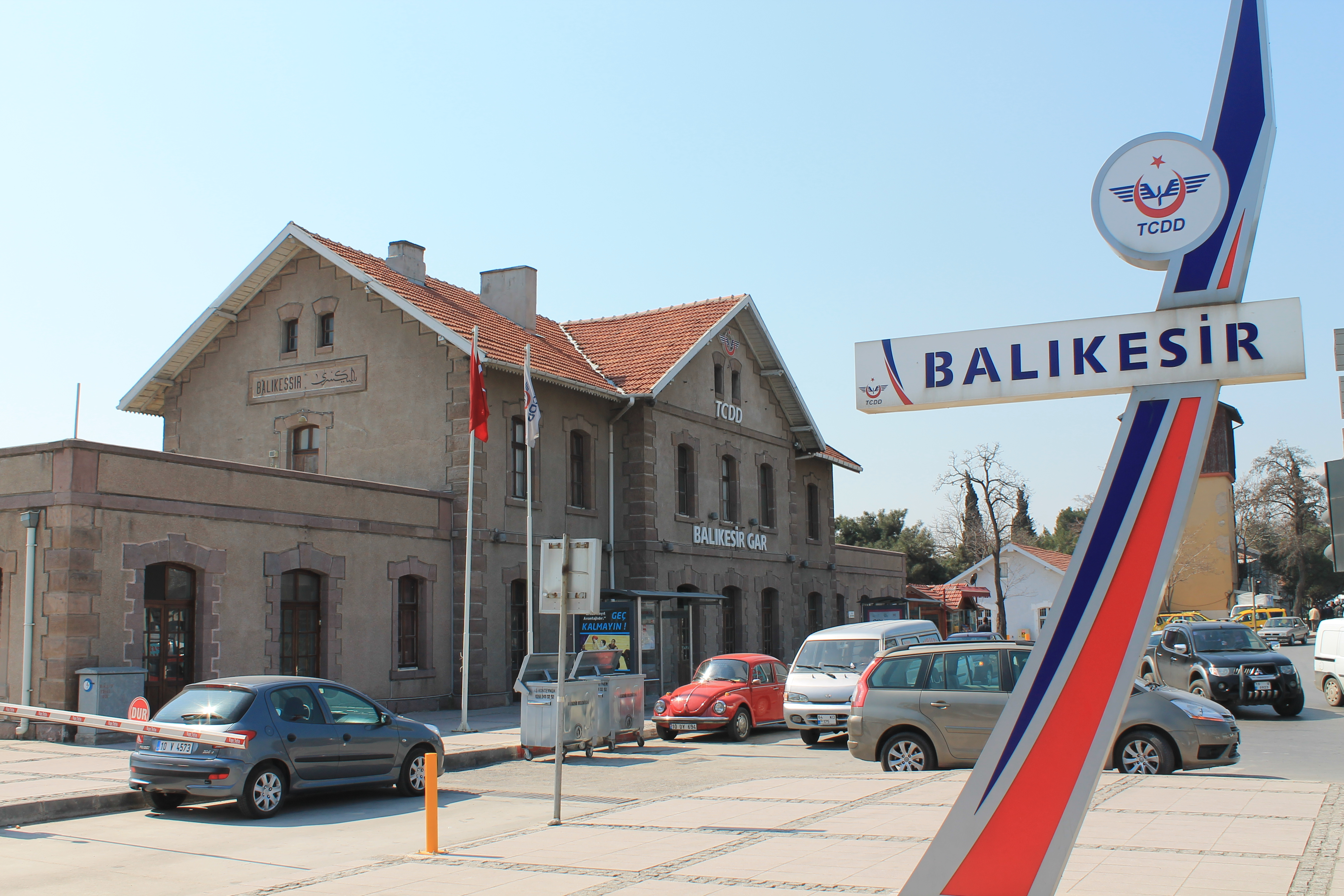 train station in Balıkesir